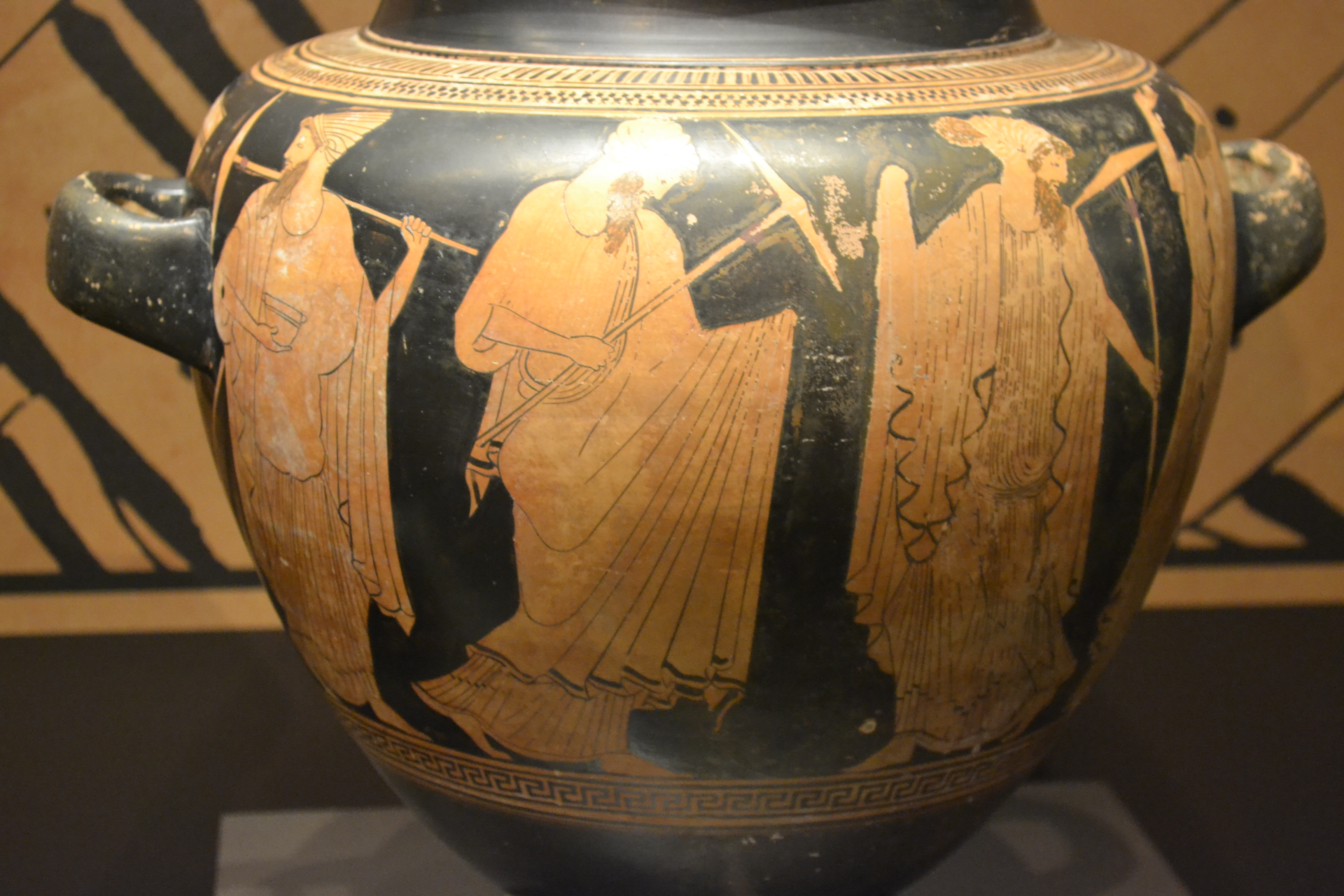 Detail of the Stamnos with Cross-dressing symposiasts. Attica. 500-450 BC. National Archaeological Museum of Spain (MAN).